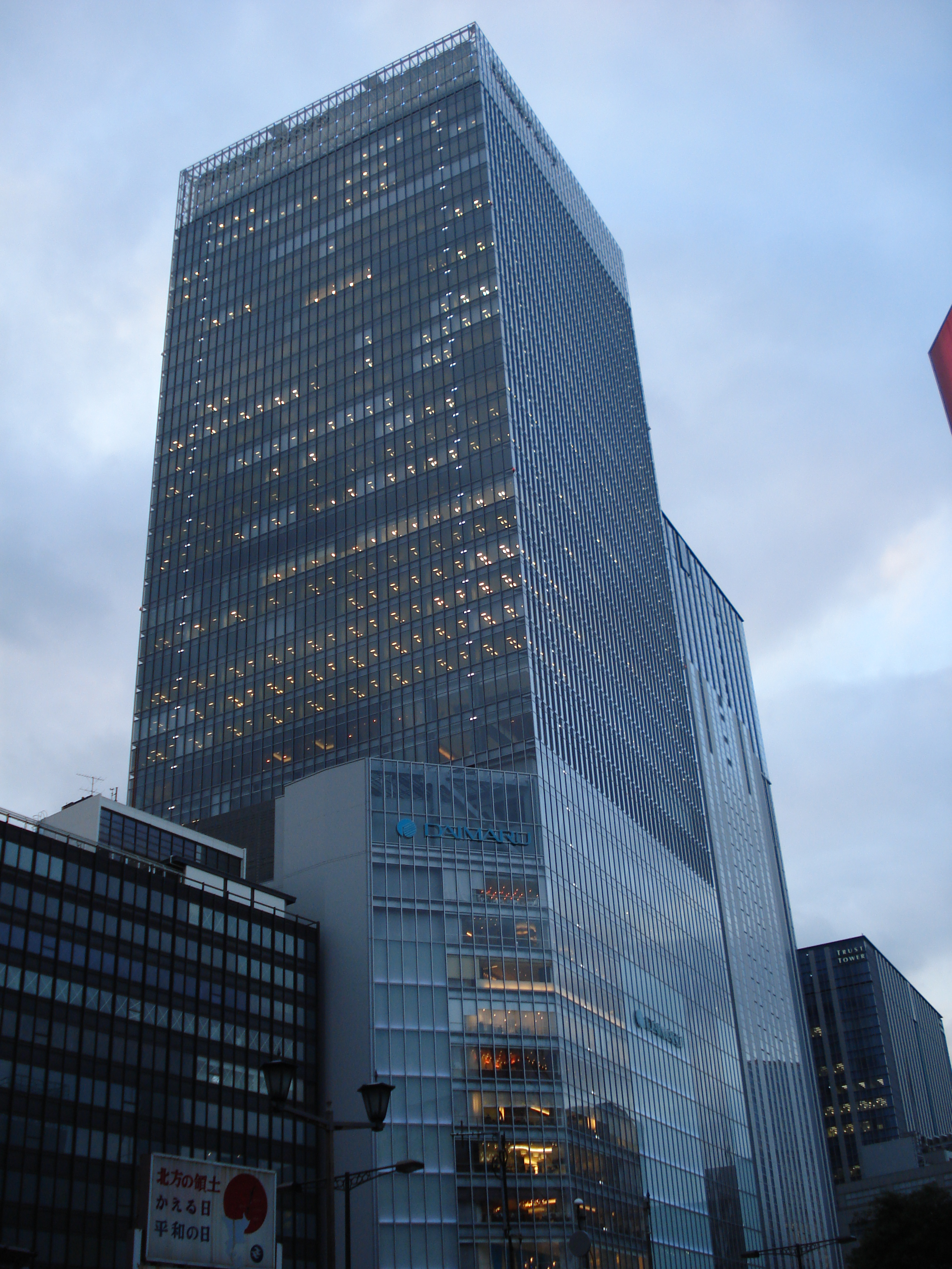 GranTokyo north tower